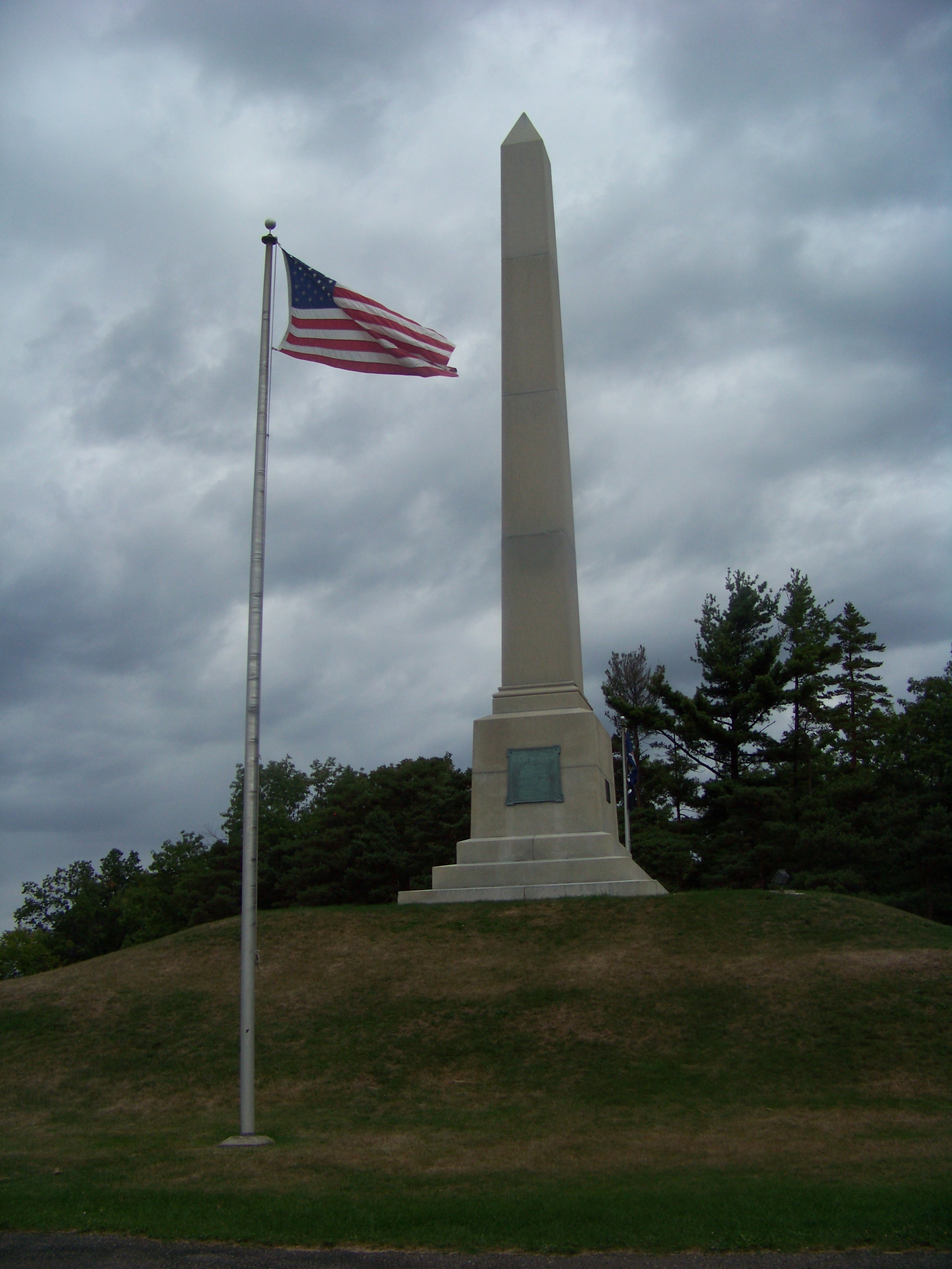 Newtown Battlefield Monument